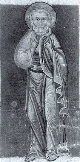 Evagrius is depicted in MS 285 of the Armenian Patriarchate of Jerusalem (dated 1430), from Kaffa, the Armenian monastery of St. Anthony the Great. The vivid colors (not shown here) suggest Evagrius to be less austere than other ascetics depicted in the same work. The MS contains the text for the Lives of the Egyptian Desert Fathers. The illustration was published in plate 18 of Nira Stone, The Kaffa Lives of the Desert Fathers: A Study in Armenian Manuscript Illumination, Corpus Scriptorum Christianorum Orientalis 566 (Leuven: Peeters, 1997). Thanks to A. Casiday for noting this illustration.